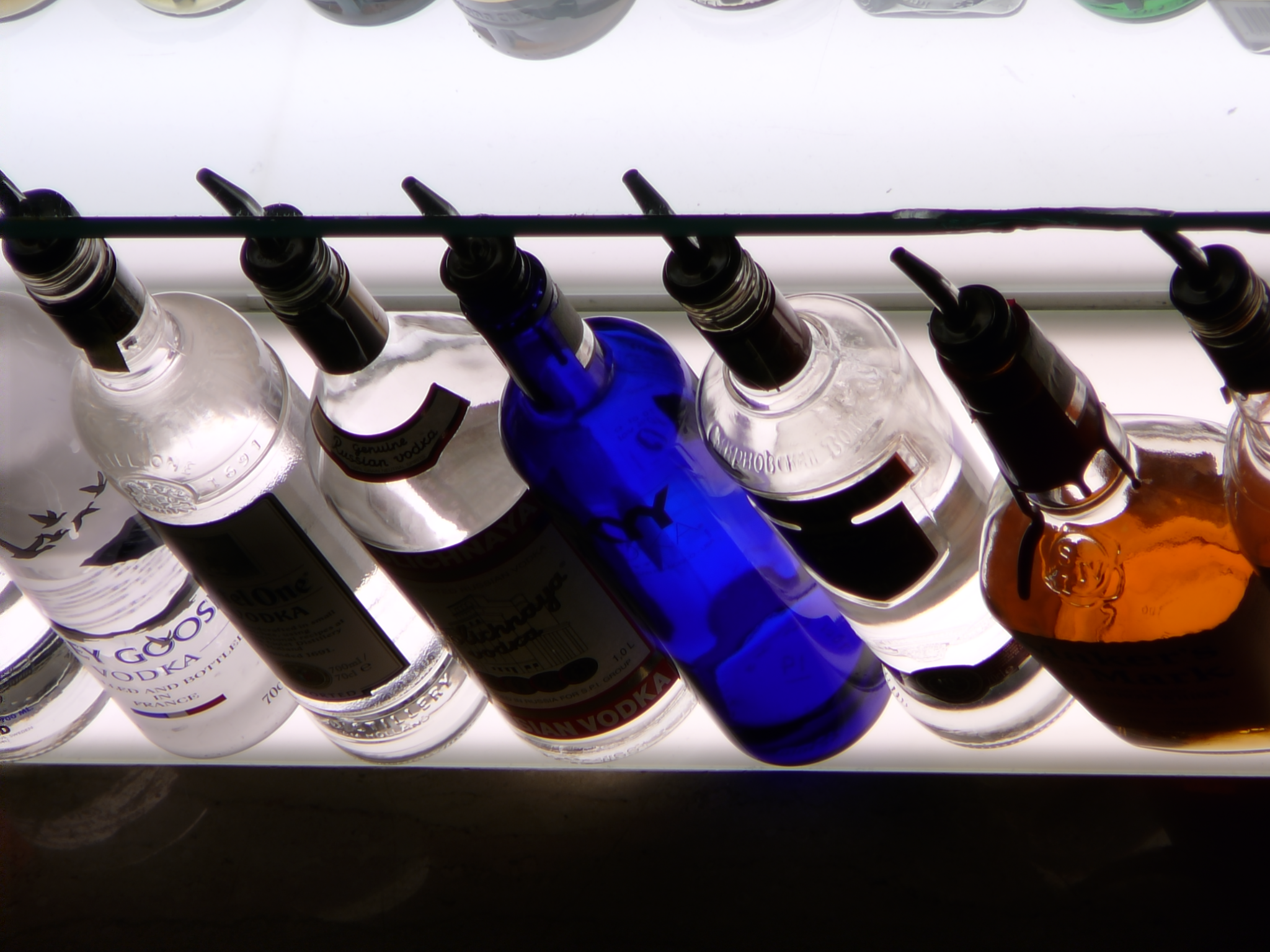 Row of bottles at the bar in Hard Rock Cafe, Prague. Registered with Twibright Registrator from multiple images shot at short exposure without using tripod.